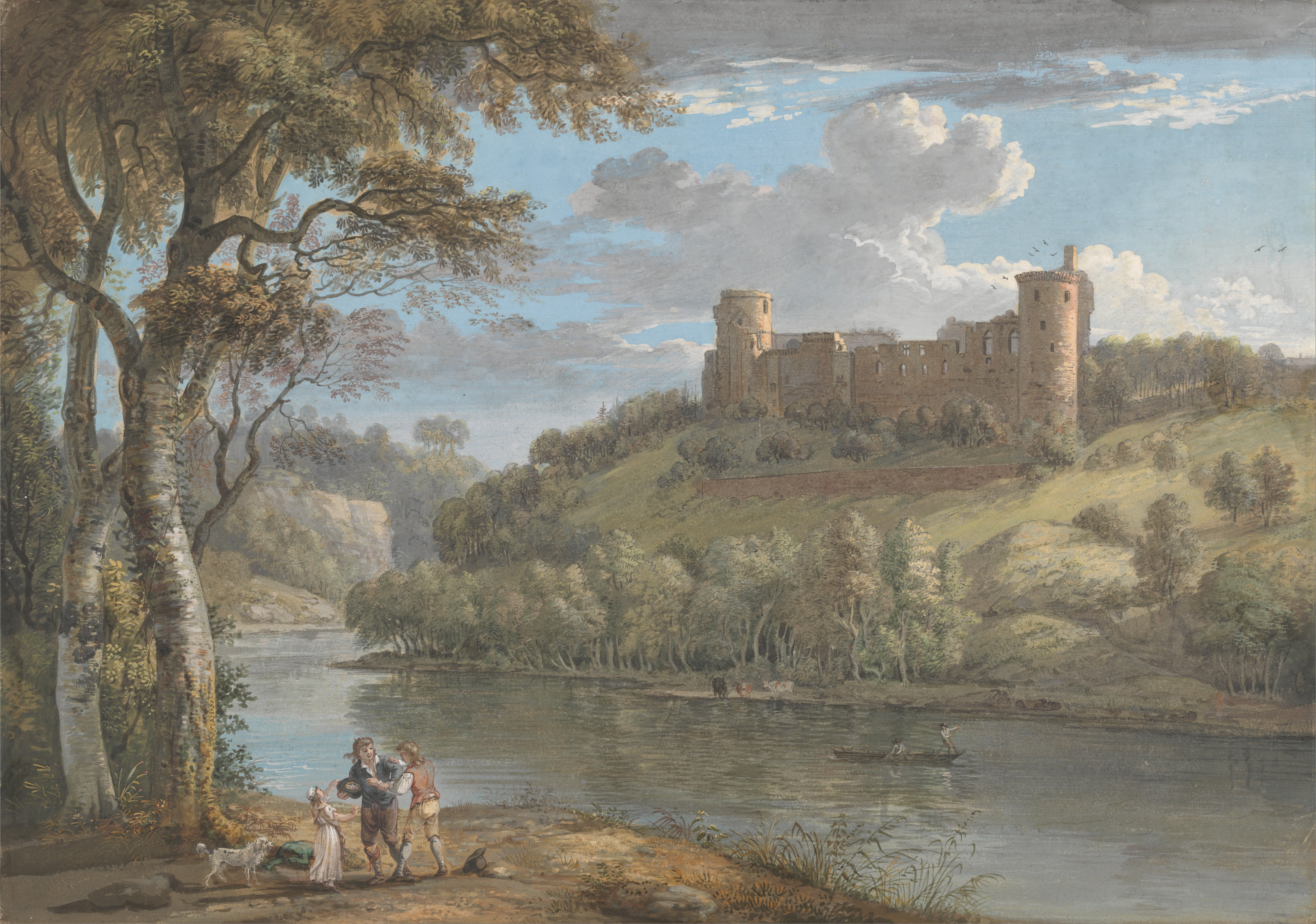 Architectural subject